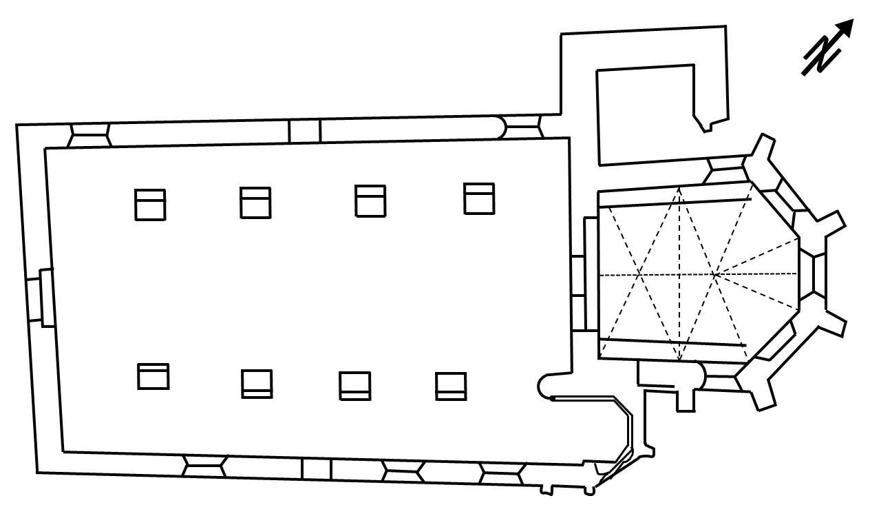 ground plan Bleidenberg Church Oberfell - selfmade